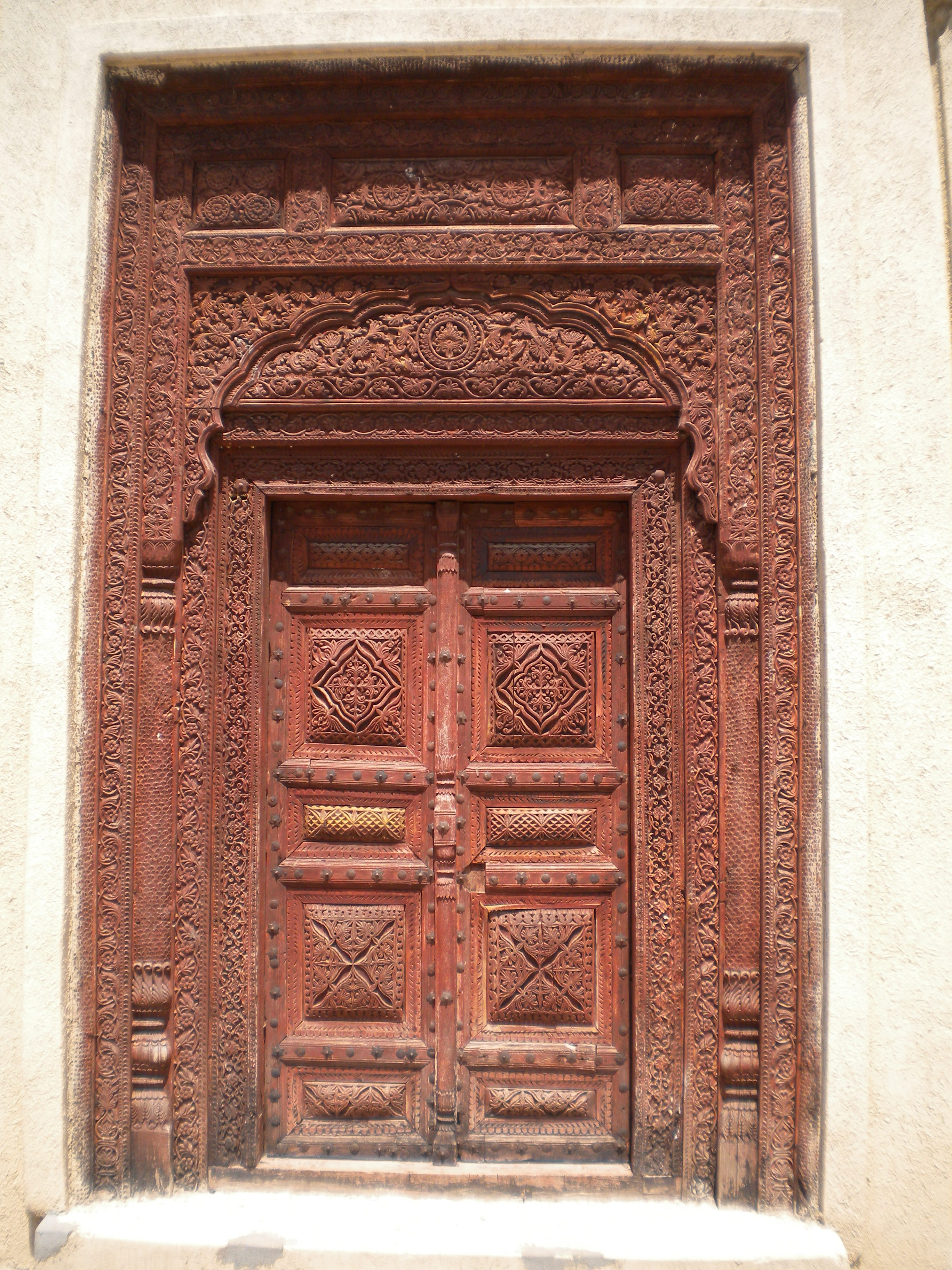 Old style Pakistani punjabi wooden carved door